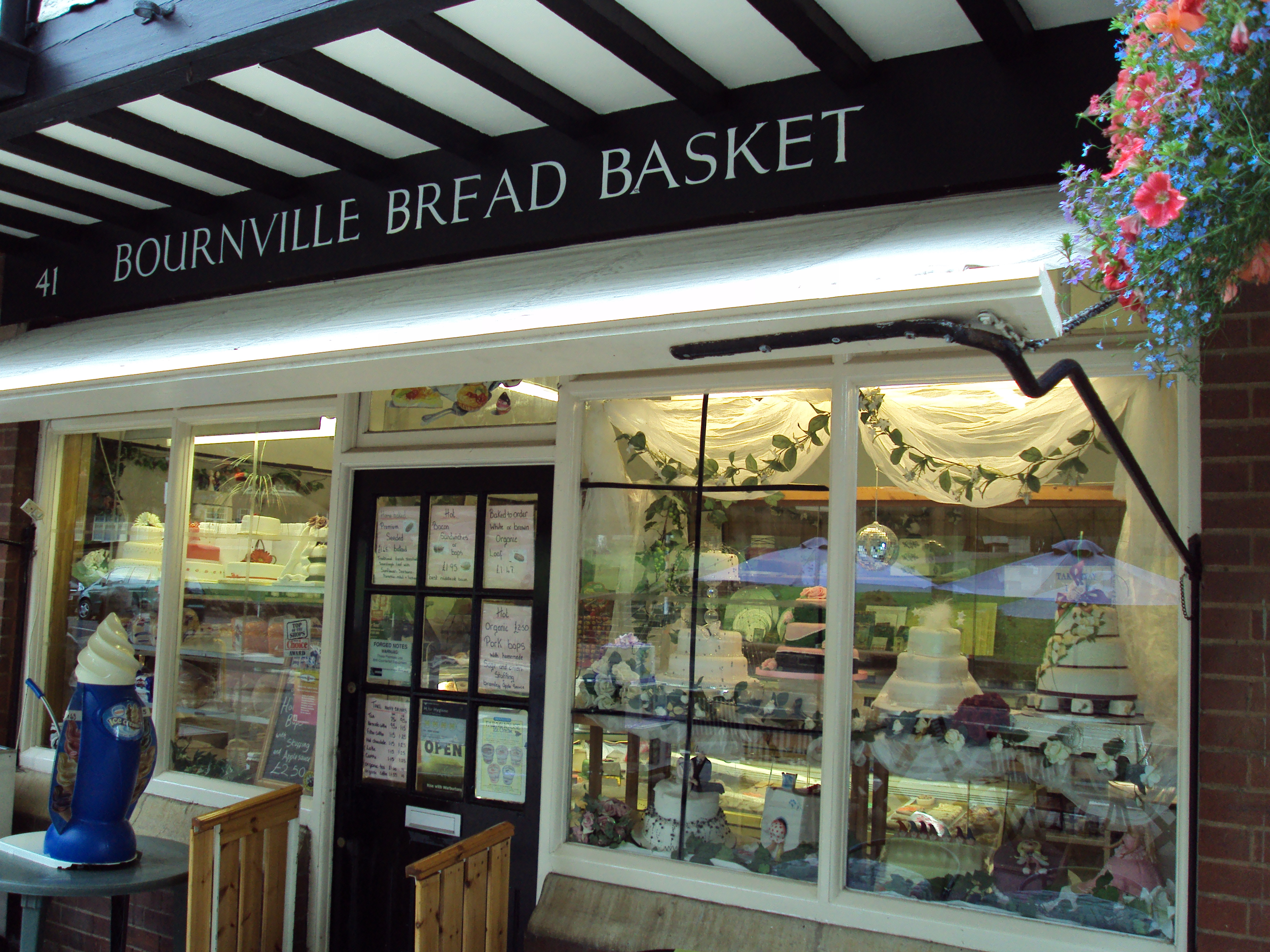 Cake shop on Sycamore Road, Bournville village, Birmingham, England.